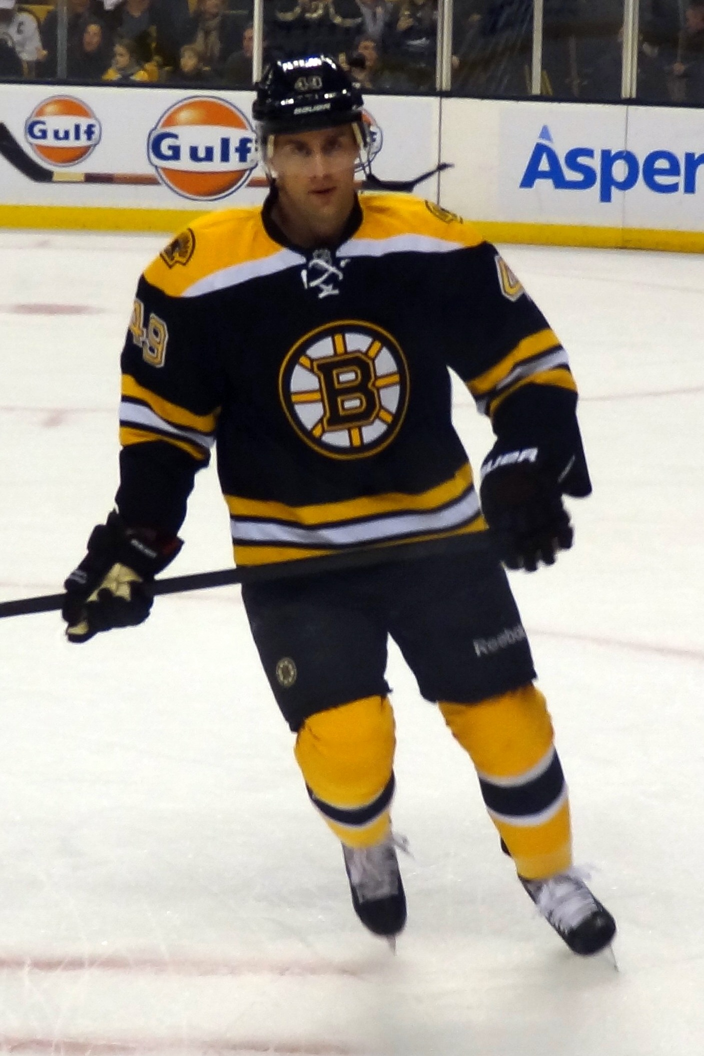 I took this picture of Rich at the TD Garden on Jan 07, 2012 during the pre-game warm ups.